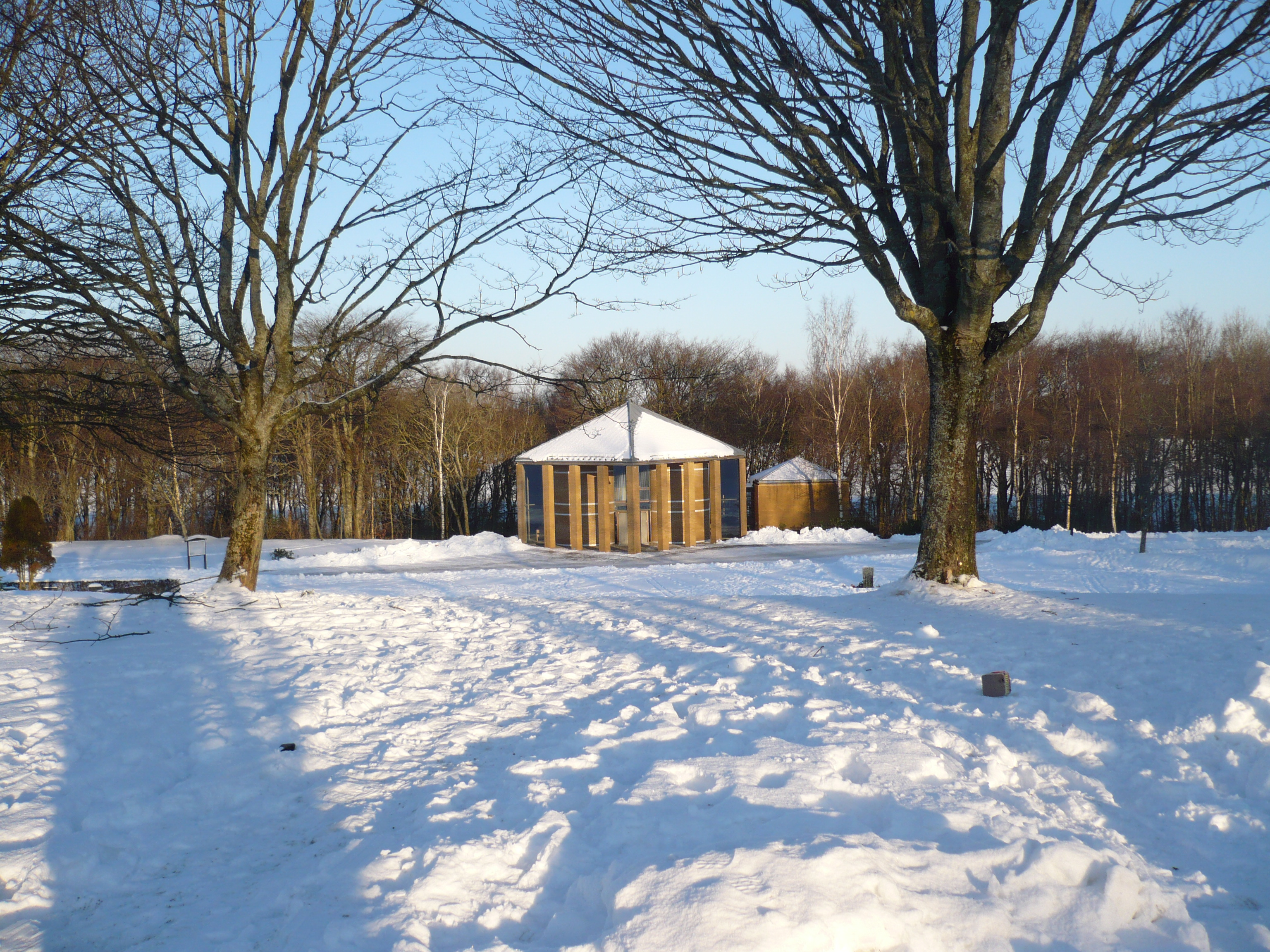 The Tjensvoll chaple in Stavanger